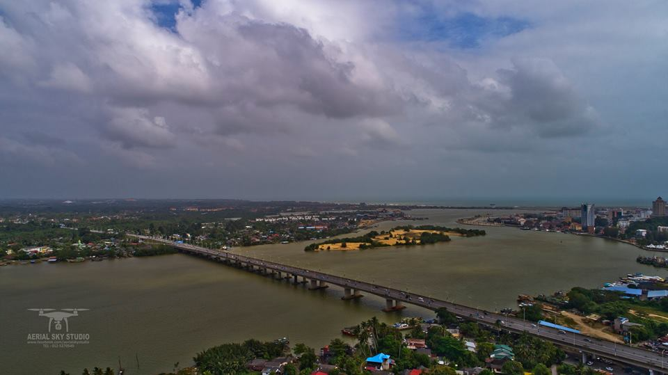 Sultan Mahmud Bridge in year 2017.